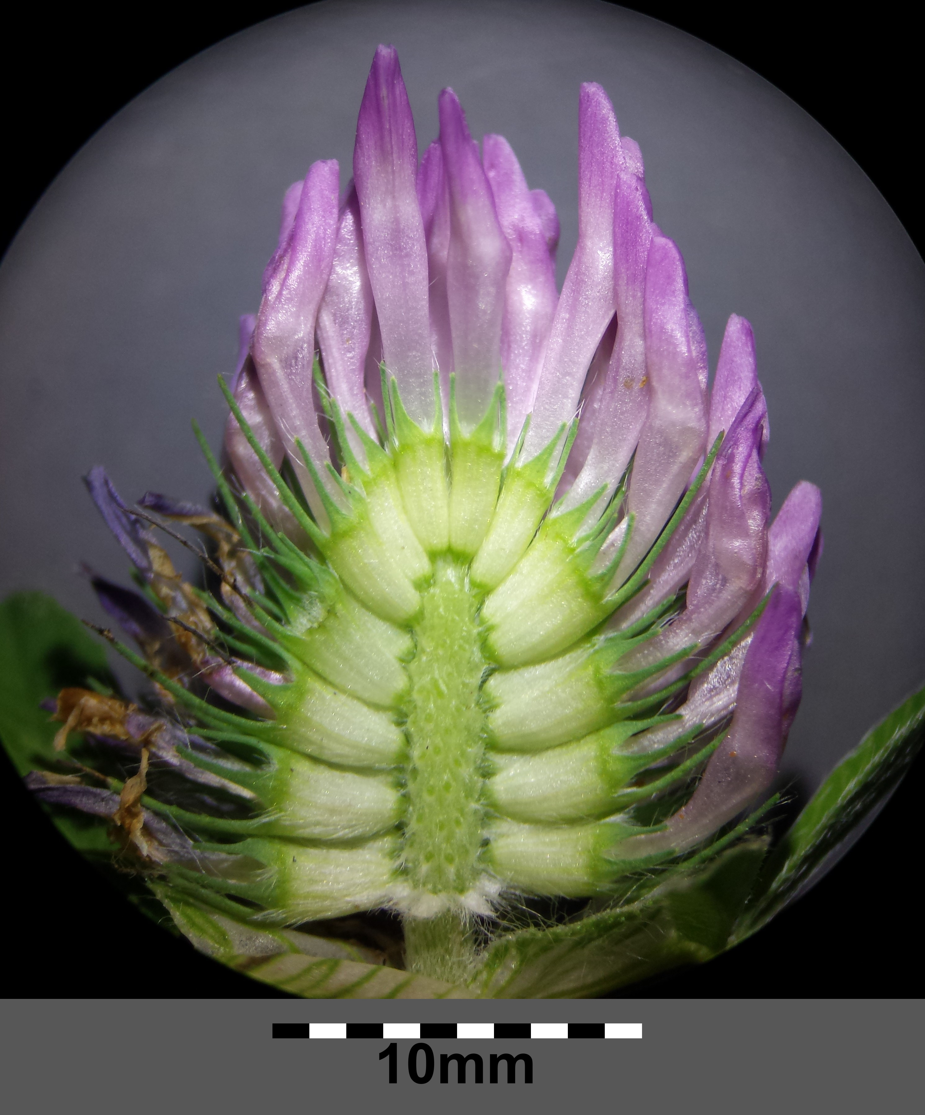 Inflorescence, front flowers removed Taxonym: Trifolium pratense subsp. pratense ss Fischer et al. EfÖLS 2008 ISBN 978-3-85474-187-9 Location: Neue Donau, Vienna-Floridsdorf - ca. 160 m a.s.l. Habitat: dry meadows